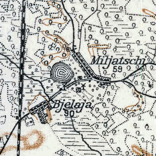 Bila (Luhove) on the map "Karte des Westlichen Russlands", T 35, 1917. According to Digital Repository of Scientific Institutes and Kujawsko-Pomorska Digital Library the map is in the public domain.